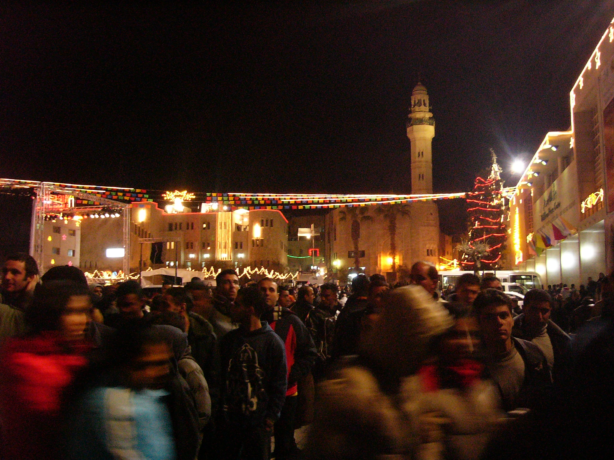 Christmas in Manger Square, 2006. I took this picture myself.